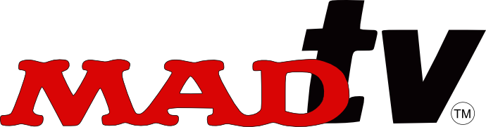 Logo television series MADtv